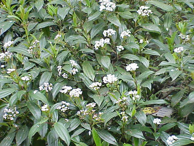 Species: Viburnum davidii Family: Adoxaceae (formerly in Caprifoliaceae) Image No. 2